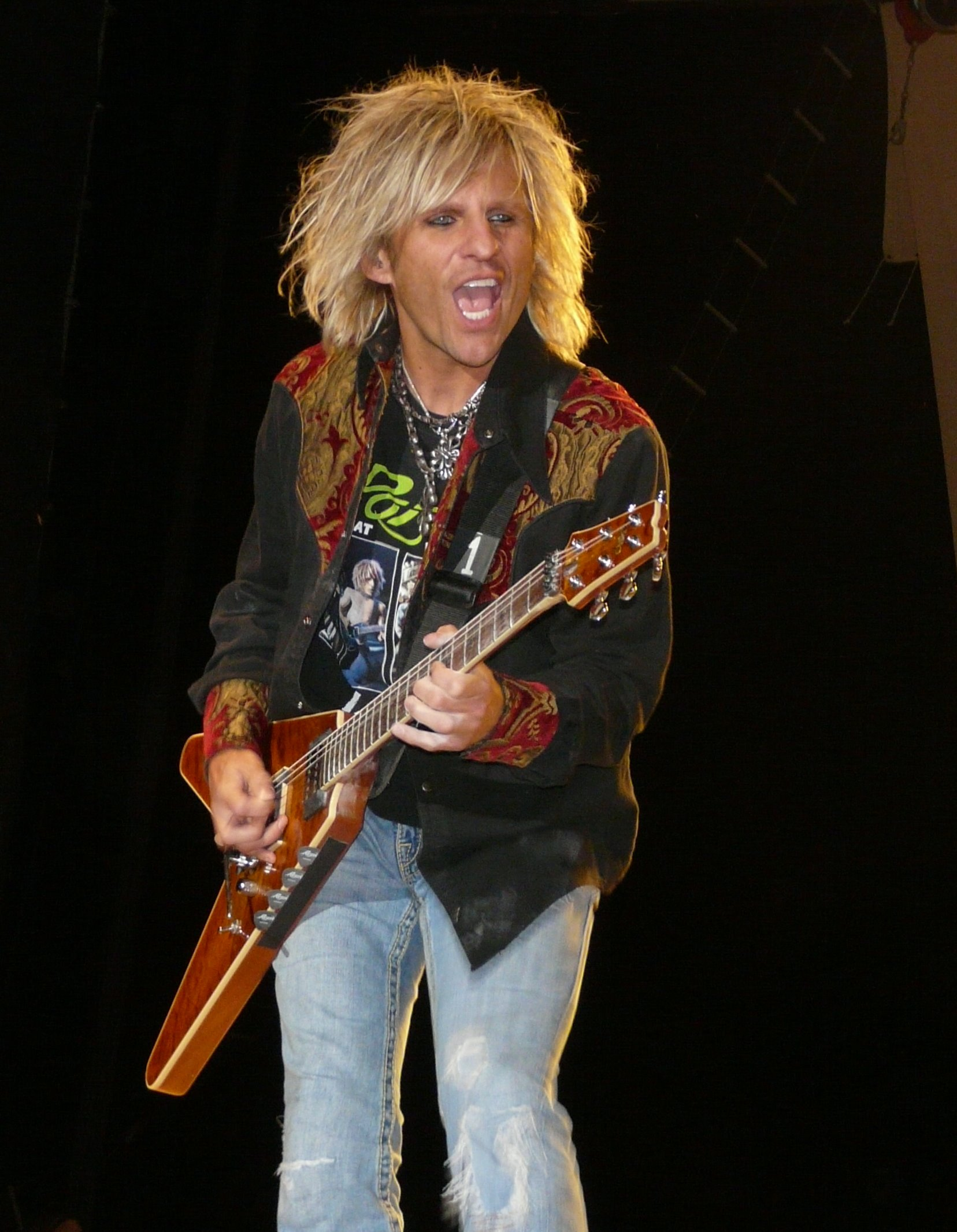 C.C. DeVille with POISON at the Moondance Jam on July 11, 2008 in Walker, Minnesota, PHOTO BY MATT BECKER